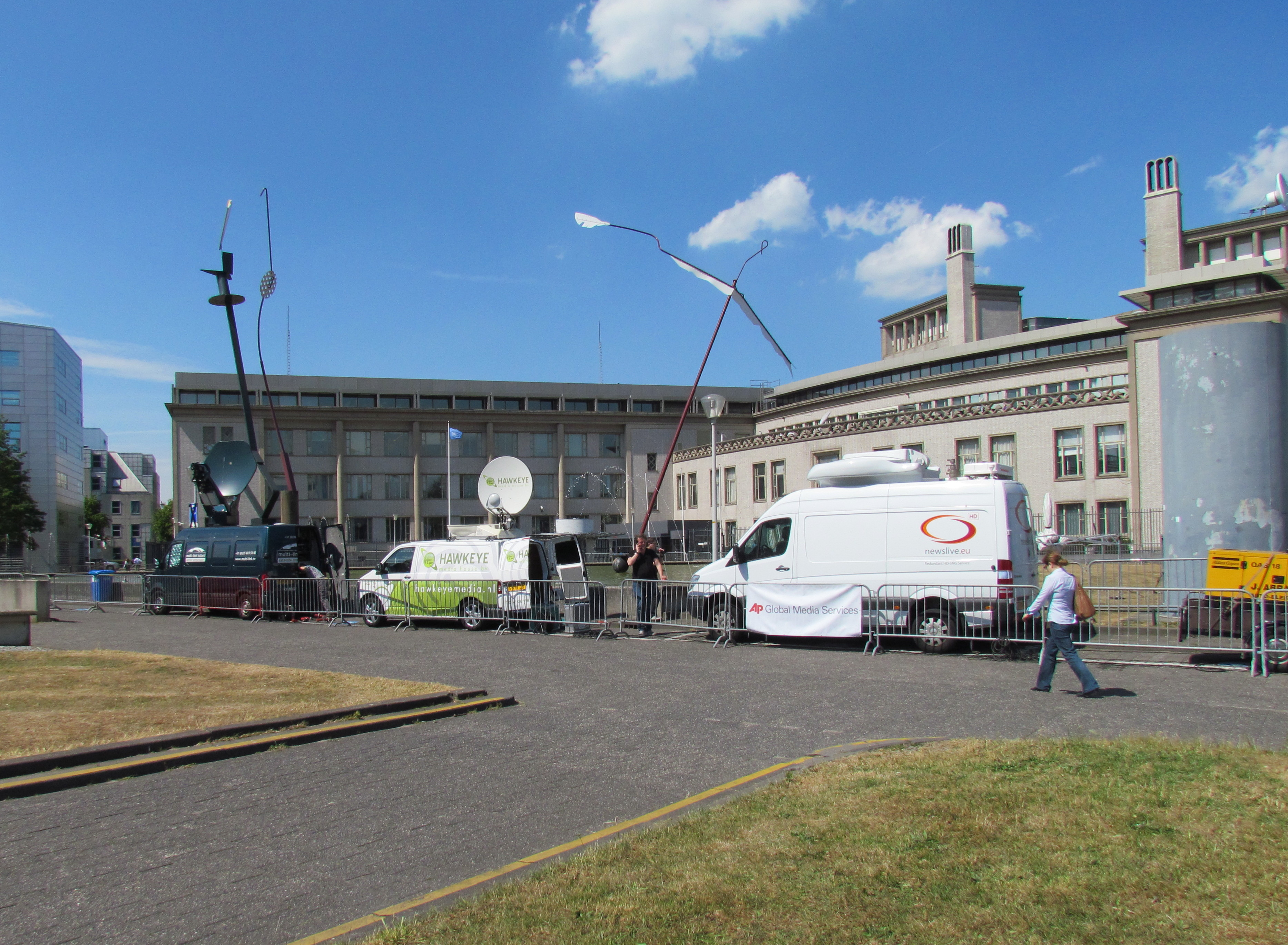 Press cars lined up outside the International Criminal Tribunal for the former Yugoslavia in The Hague, on the day a court session took place in Belgrade concerning the handover of Ratko Mladić to the International Criminal Tribunal for the former Yugoslavia. His lawyer's appeal was rejected the following day, and mr. Mladić was transferred to Scheveningen prison that same day.